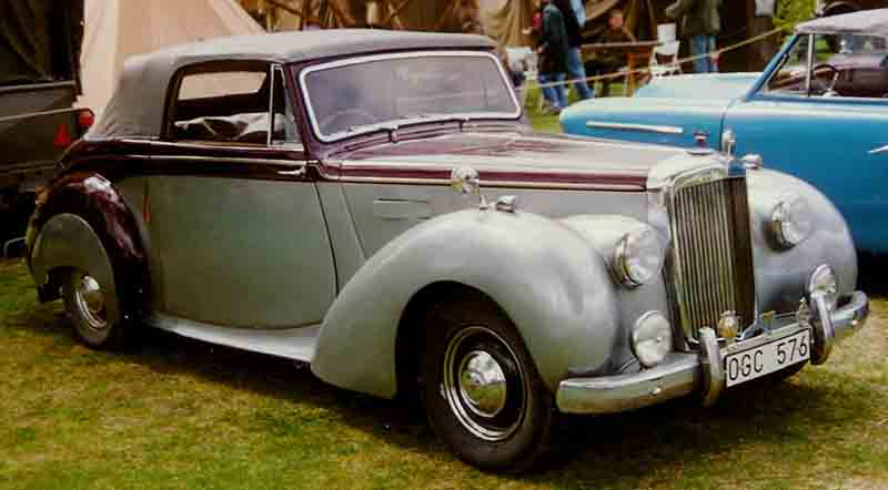 Alvis TA21 Drophead Coupé 1952